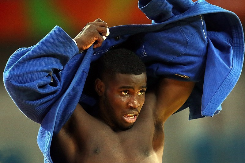 2016 Summer Olympics Judo, August 9